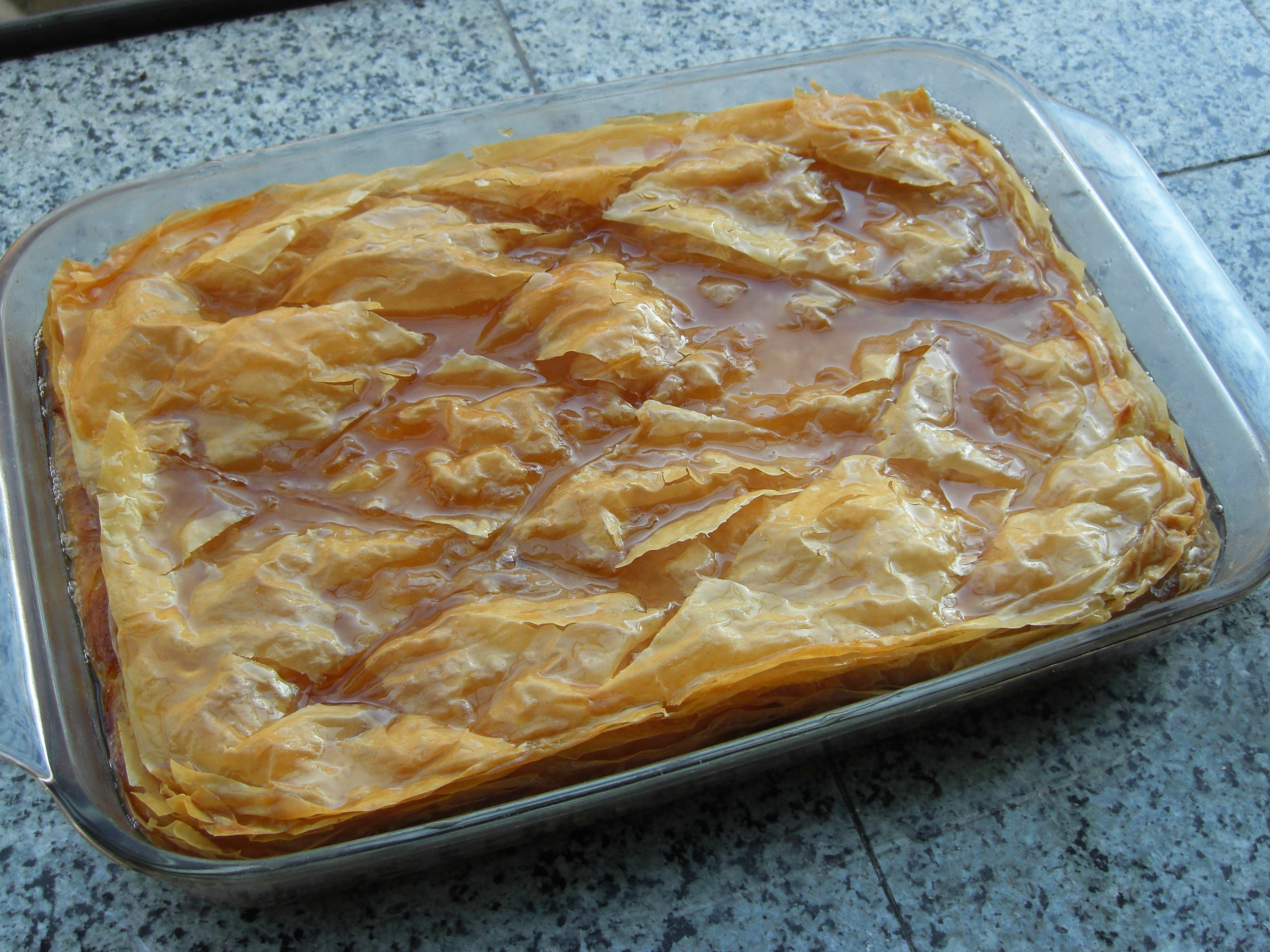 Christmas 2011